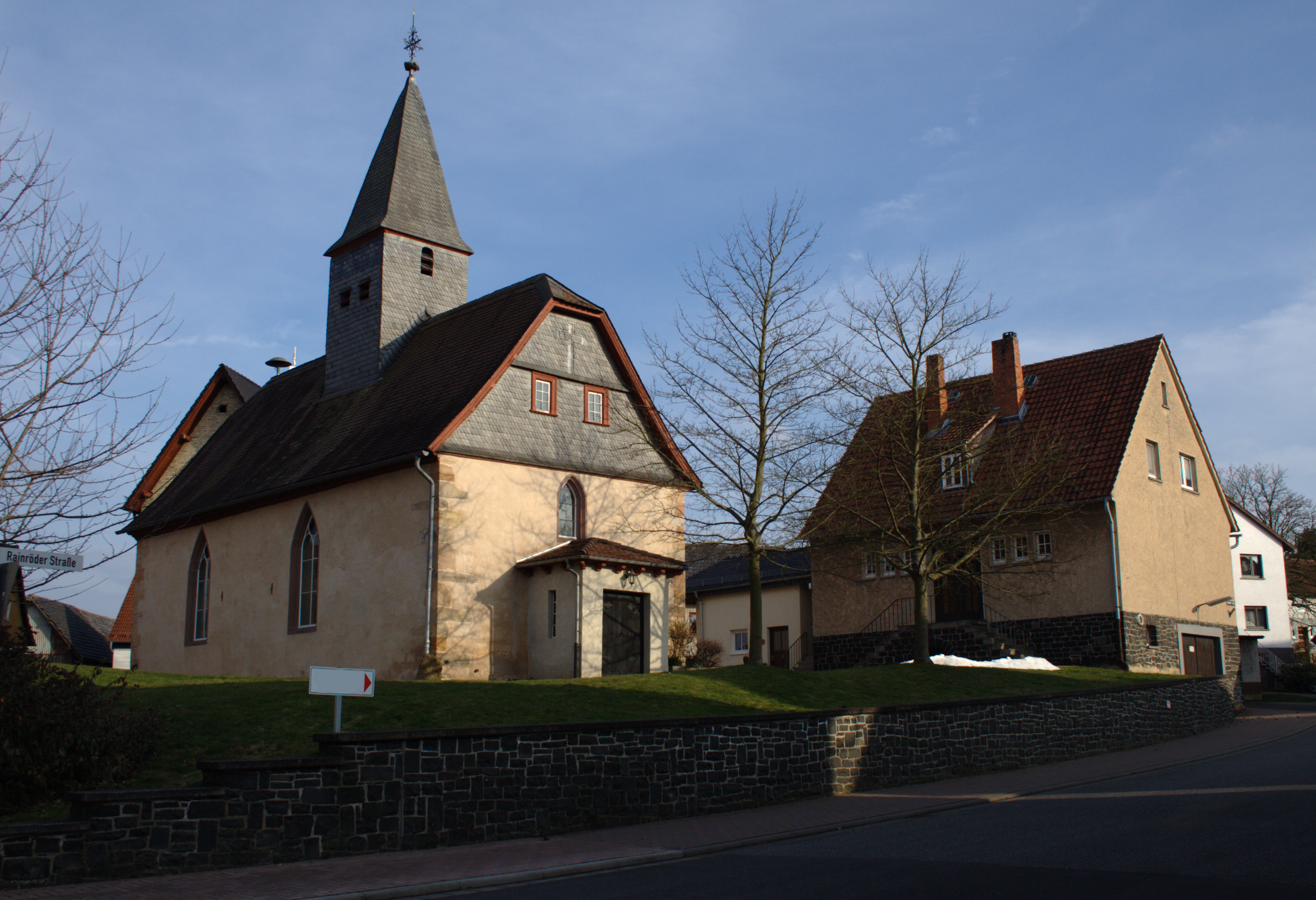 Church in Alsfeld Eifa Rainroeder Strasse / Hesse / Germany